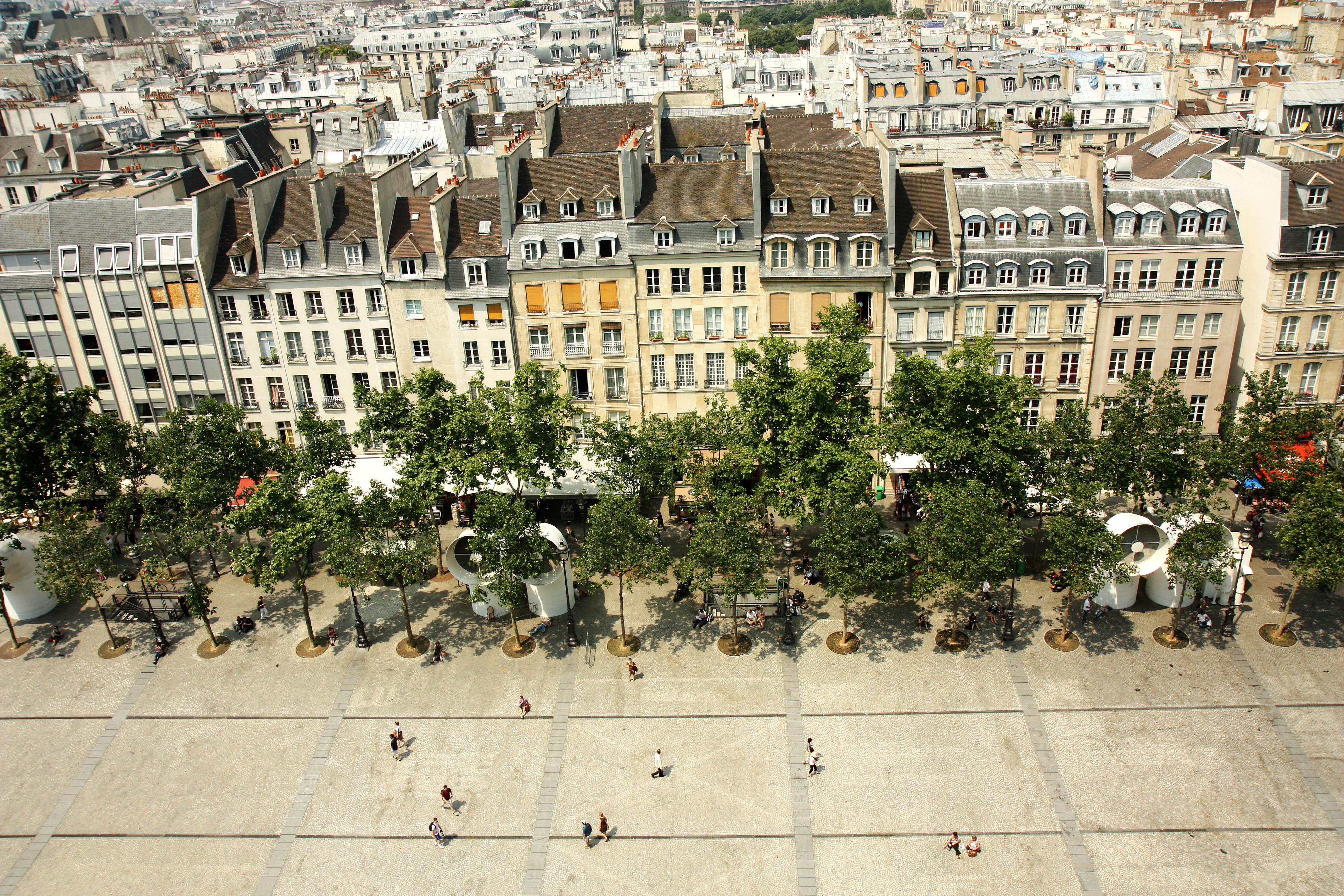 View from Centre Georges Pompidou